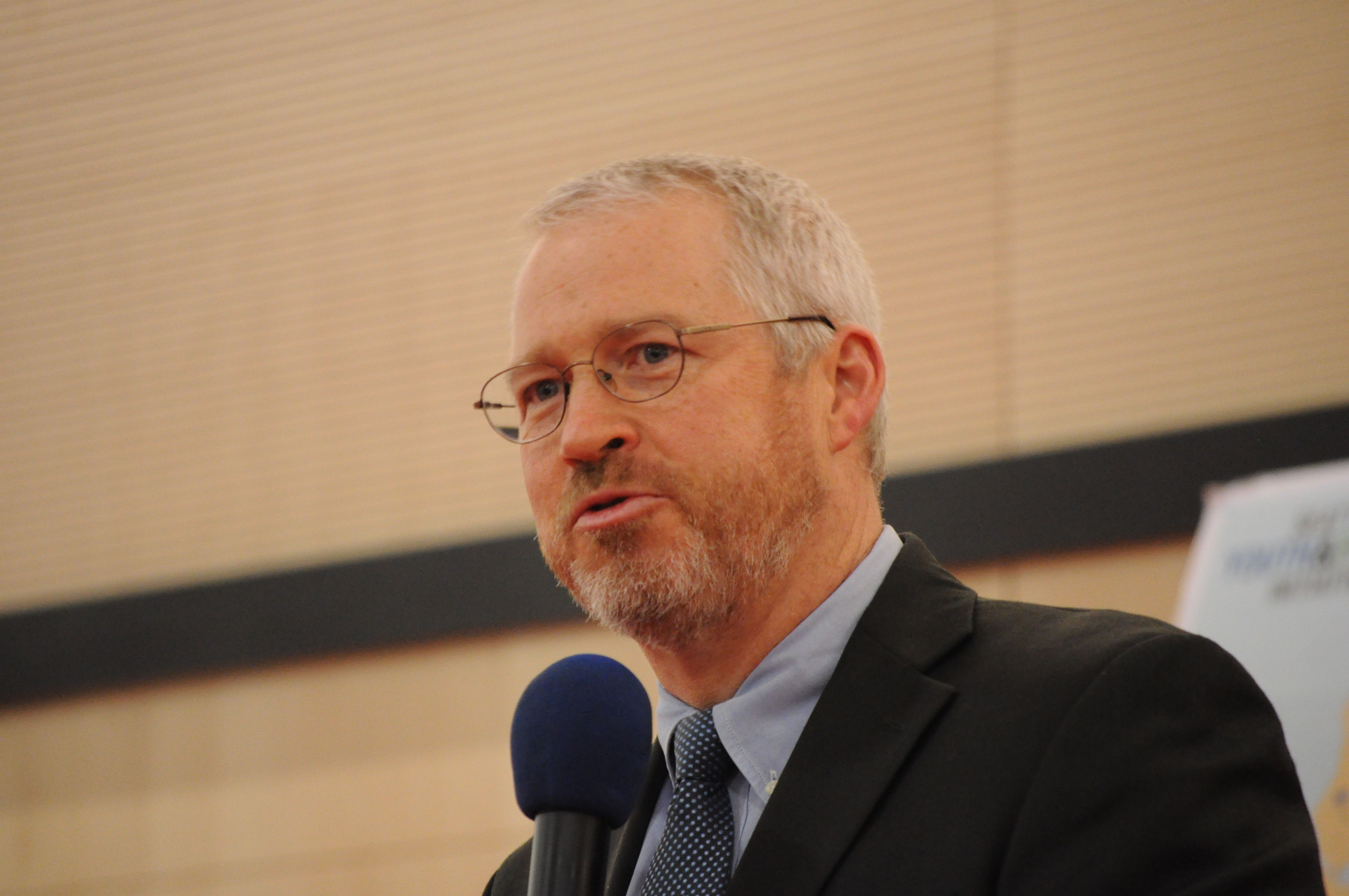 Seattle Mayor Michael McGinn addressing a "town hall" meeting at Nathan Hale High School, Seattle, Washington, USA.